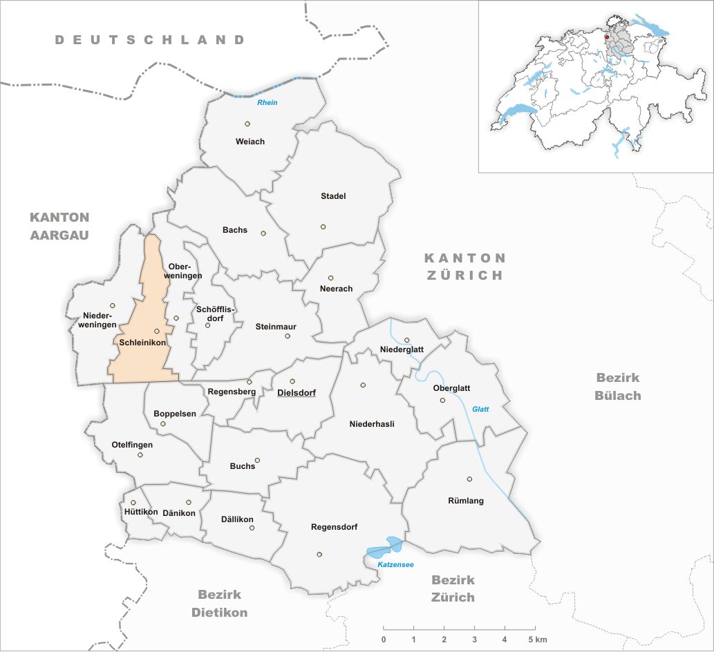 Municipality Schleinikon